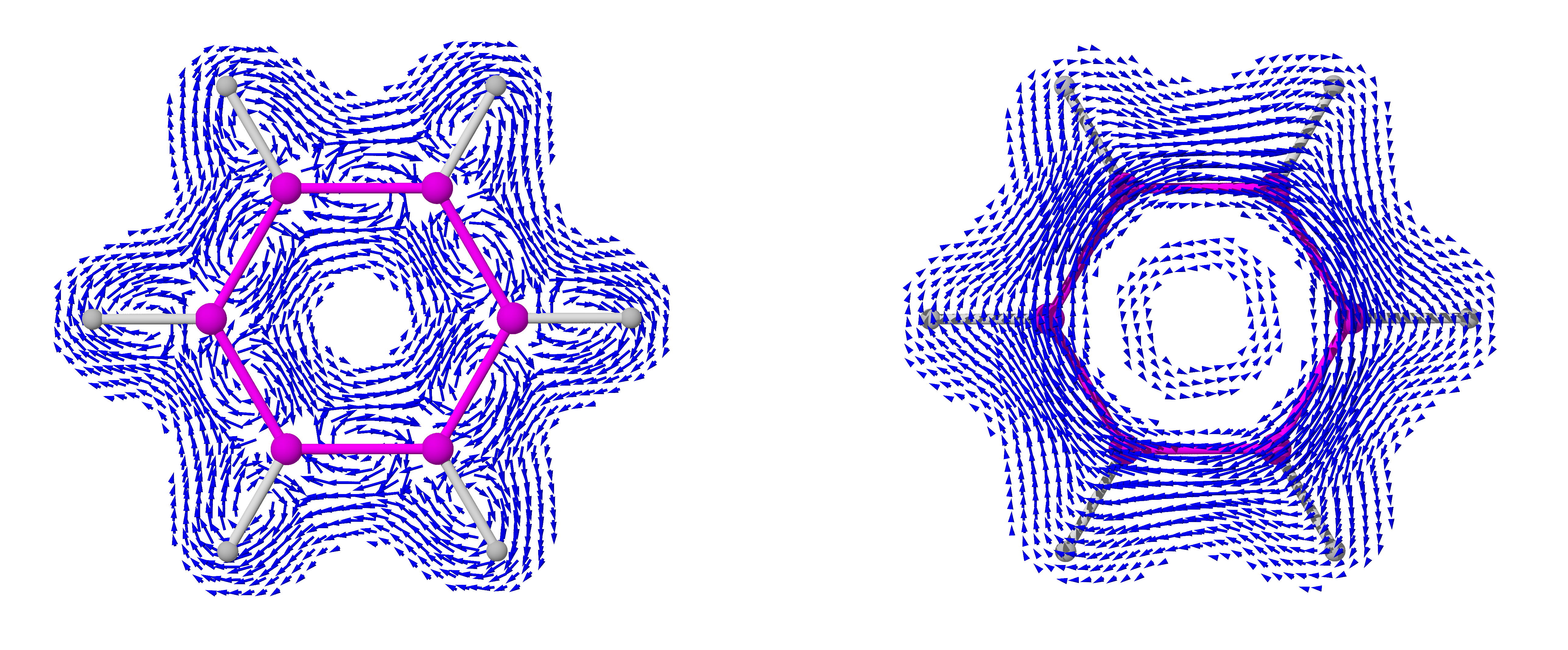 Quantum chemically calculated magnetically induced probability current density vectors in benzene. The magnetic field is pointing out of the molecular plane upwards. Displayed are vectors with modulus between 0.01 and 0.1 nA/T. Left subfigure is in the molecular plane, right subfigure is 1.0 a.u. above the molecular plane.